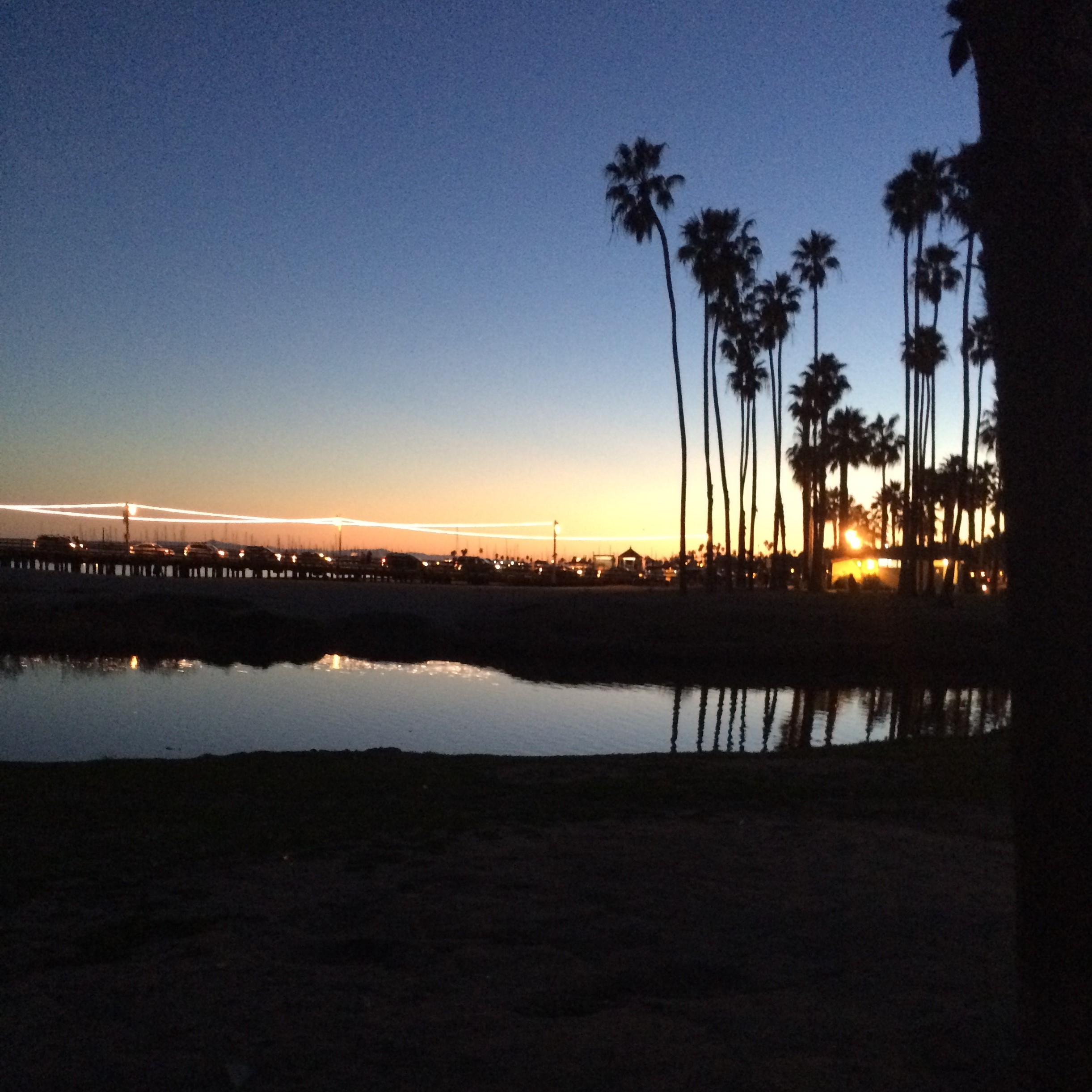 A picture of the ocean in Santa Monica at sunset, with palm trees in the distance.